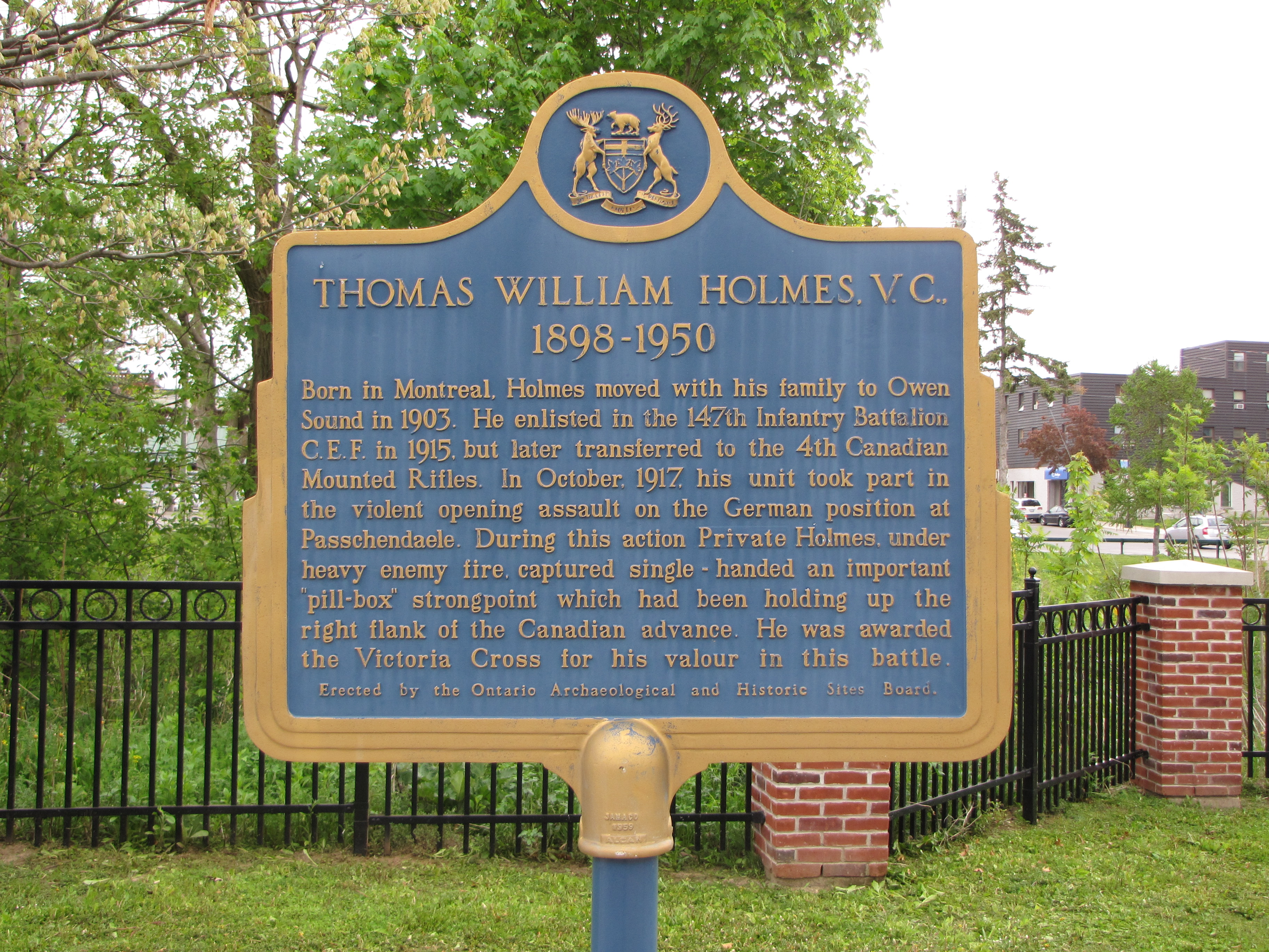 Commemorative plaque honoring Thomas Holmes, downtown Owen Sound.